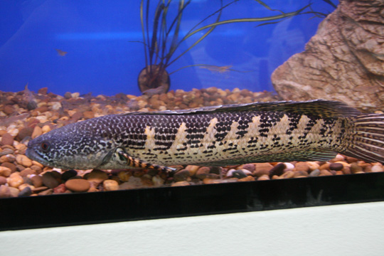 An orange-spotted snakehead fish (Thai: ปลาช่อนทอง) or Channa aurantimaculata at the 20th Pramong Nomklao fish show event at the Future Park Rangsit, Thailand, in July 2008. This specimen was reportedly from Assam, India. Picture taken by myself.